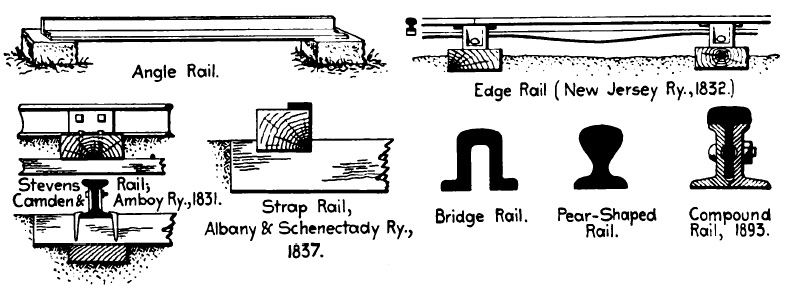 Rail profiles used by United States railroads in the 19th century. ("Fig. 26. Old Forms of Rails.")